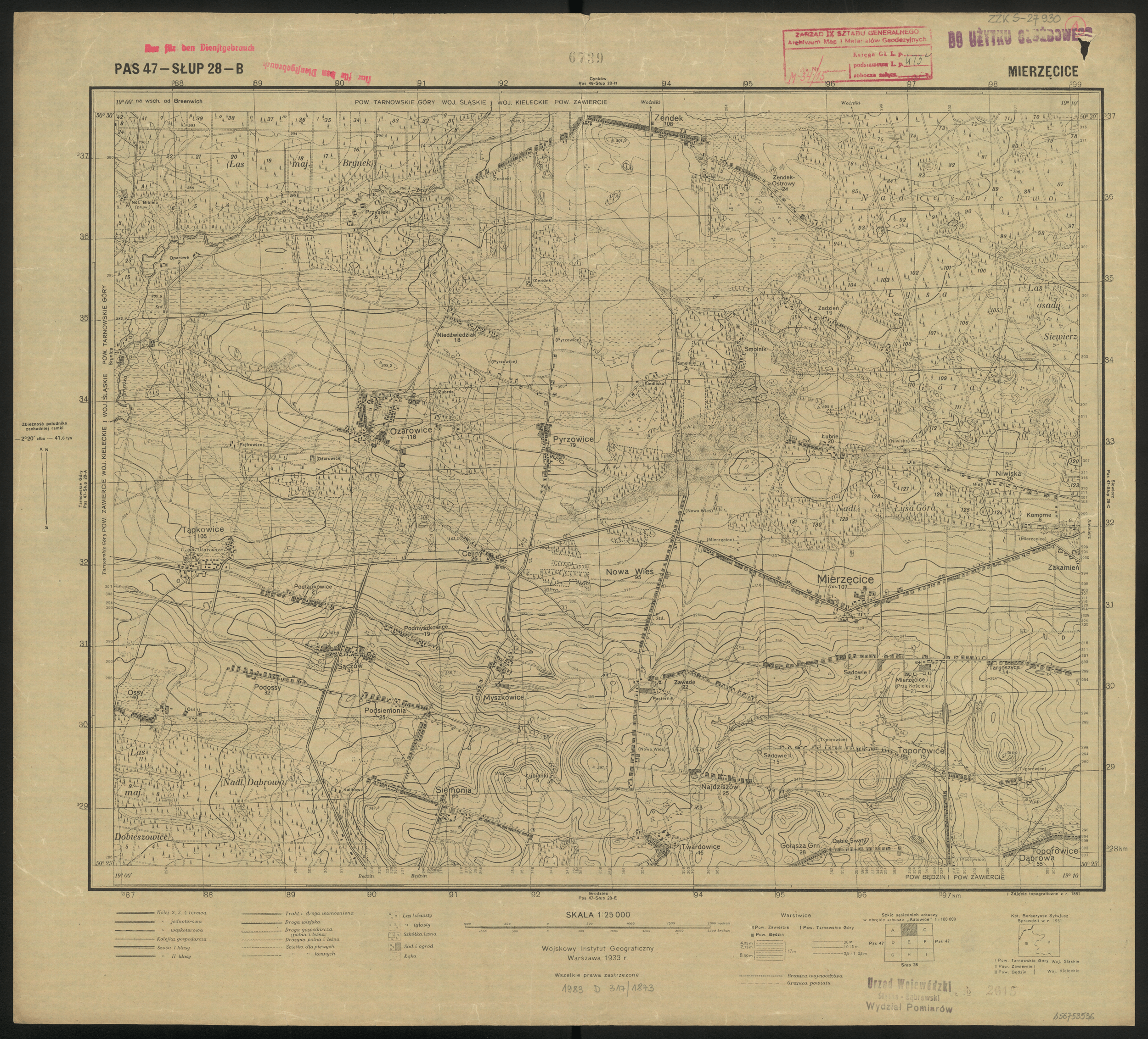 Mierzęcice (woj. śląskie, pow. będziński, gm. Mierzęcice ; okolice).